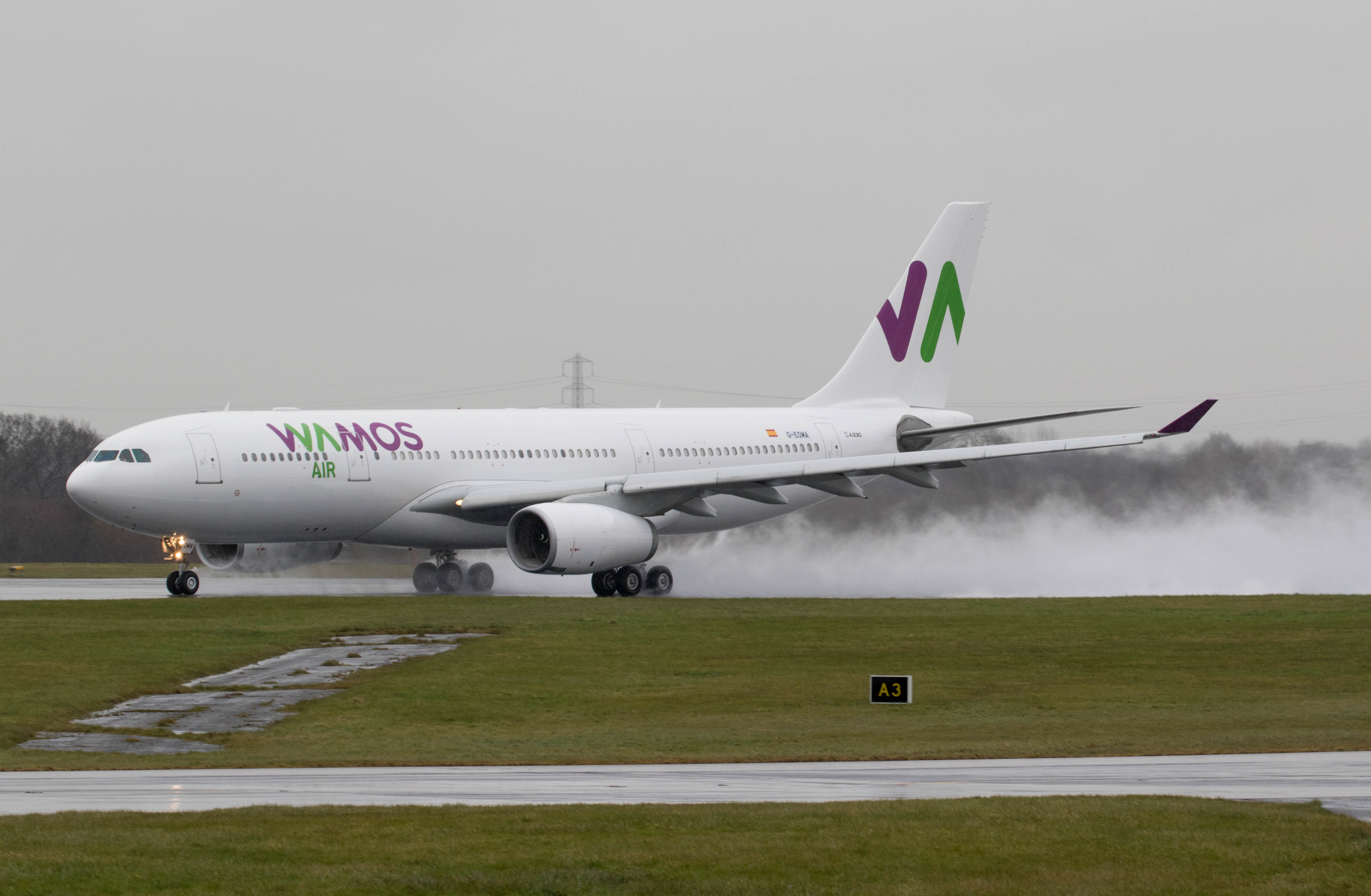 Seen departing Manchester on 09.03.16 after repainting at Air Livery, ex Monarch.